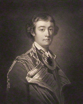 John West, 2nd Earl De La Warr (1729-1777)